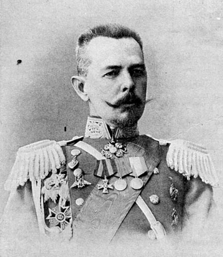 Dolgov, Dmitry Aleksandrovich